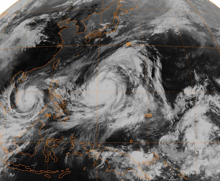 Full-disc satellite image of Typhoon Tip near its worldwide record peak intensity, located in the western Pacific Ocean. Typhoon Sarah is located to its west in the South China Sea.